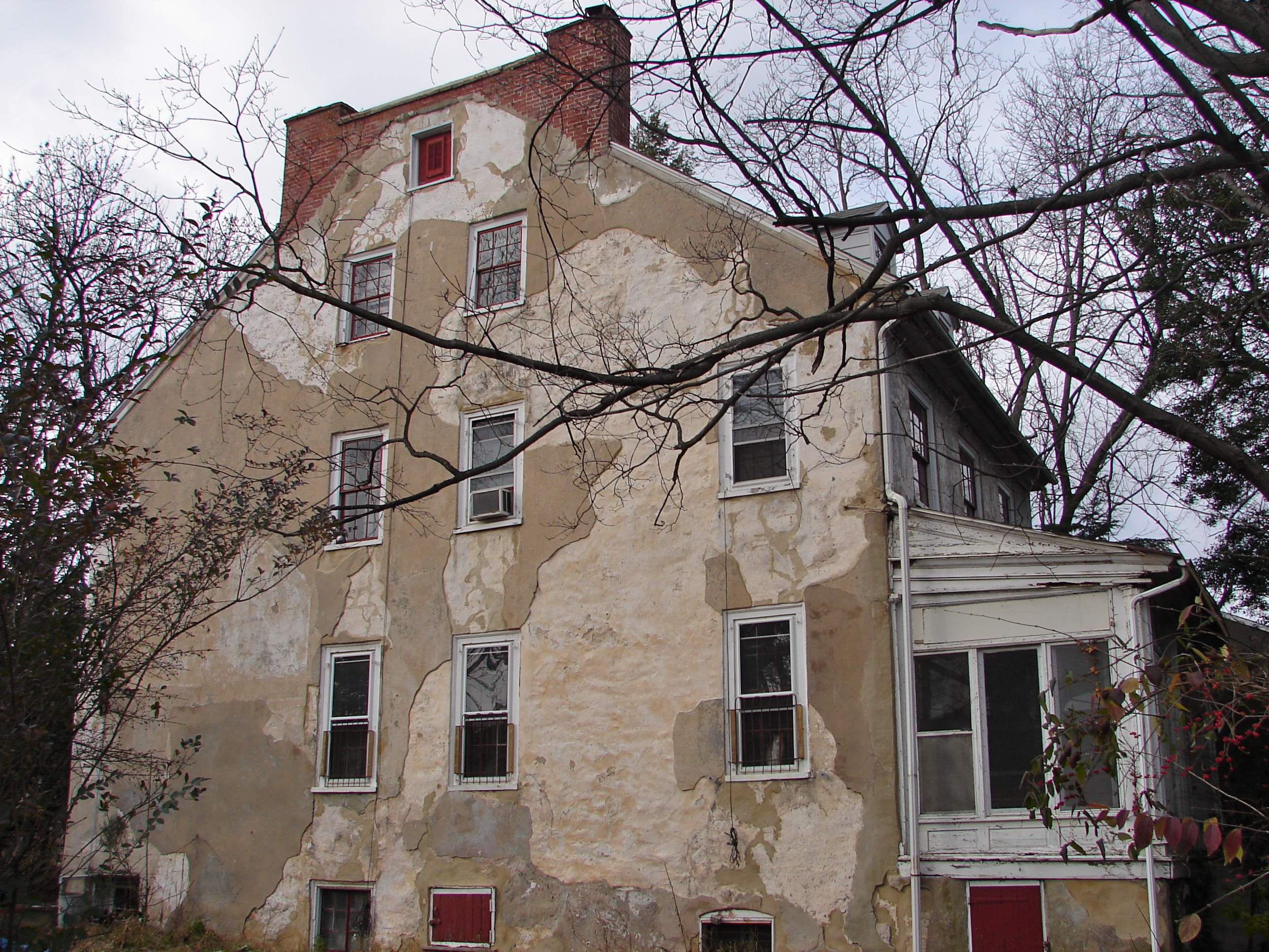 Dr. John A. Brown House, aka "Anchorage" on the NRHP since April 24, 1979. At #4 Seventh Ave., Wilmington, Delaware (near the corner of Broom and Maryland Ave. - NOT the 7th Street downtown)